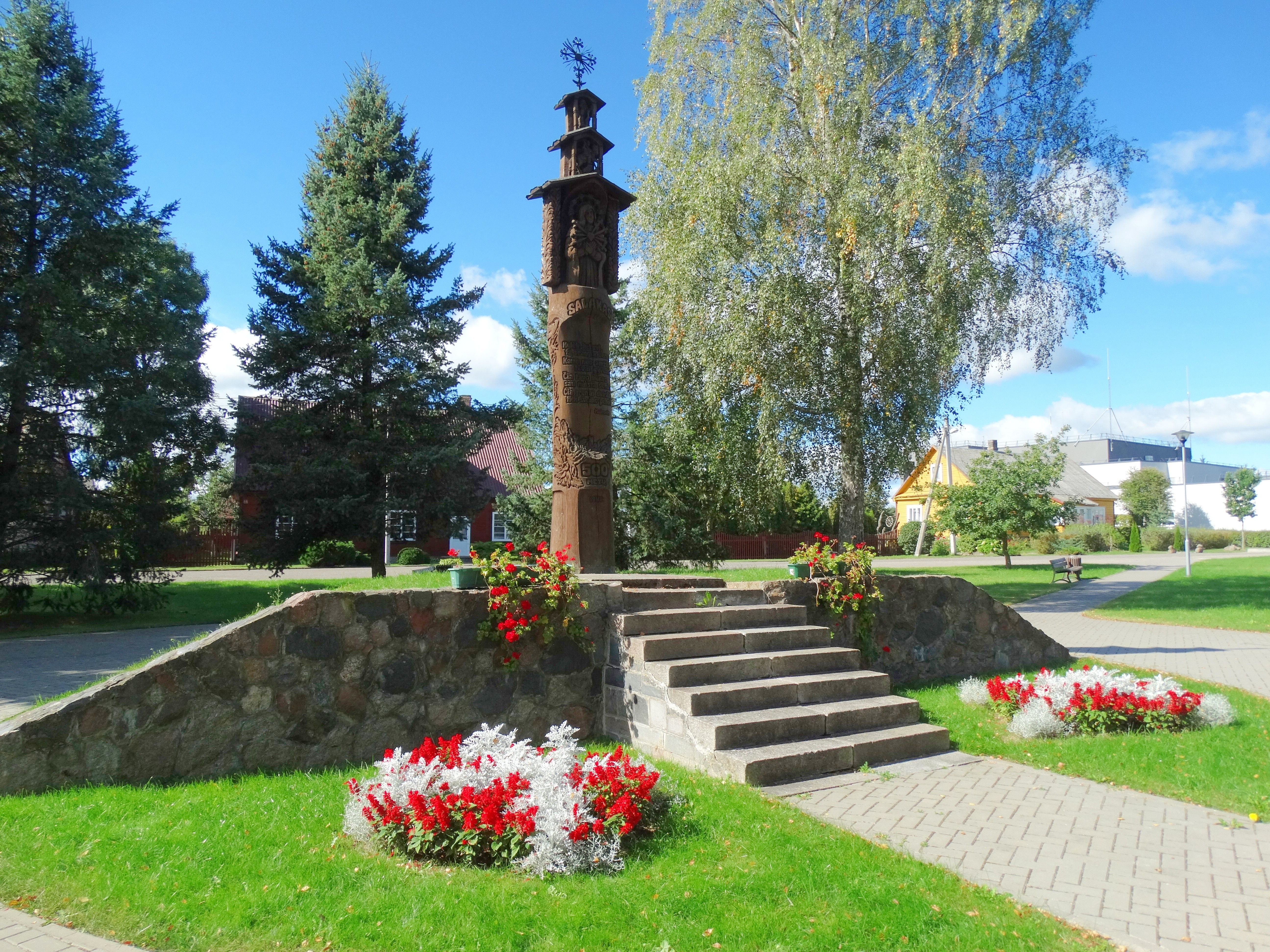 Eldership, Salakas, Zarasai District, Lithuania